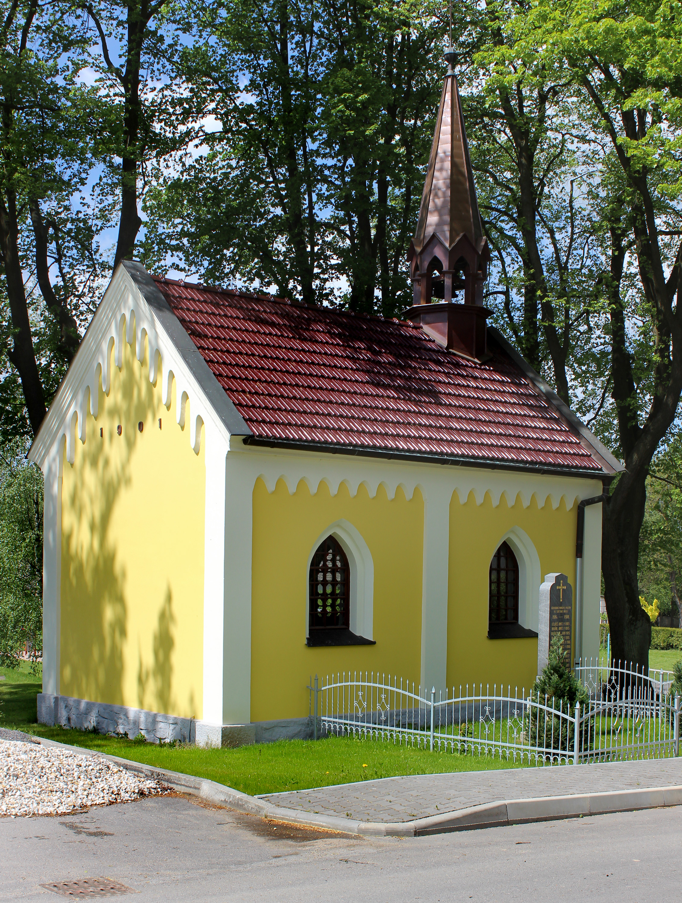 Chapel in Olešenka, Czech Republic